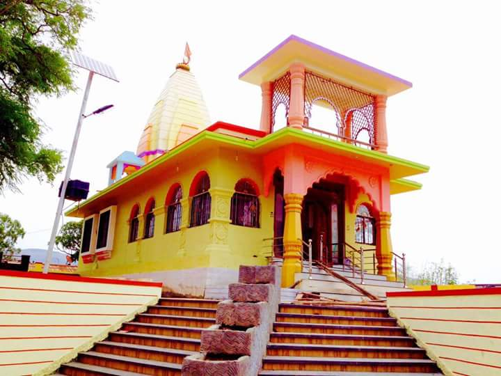 Lord Bhirava Temple at Vele(Kamthi) village in Satara,Maharashtra